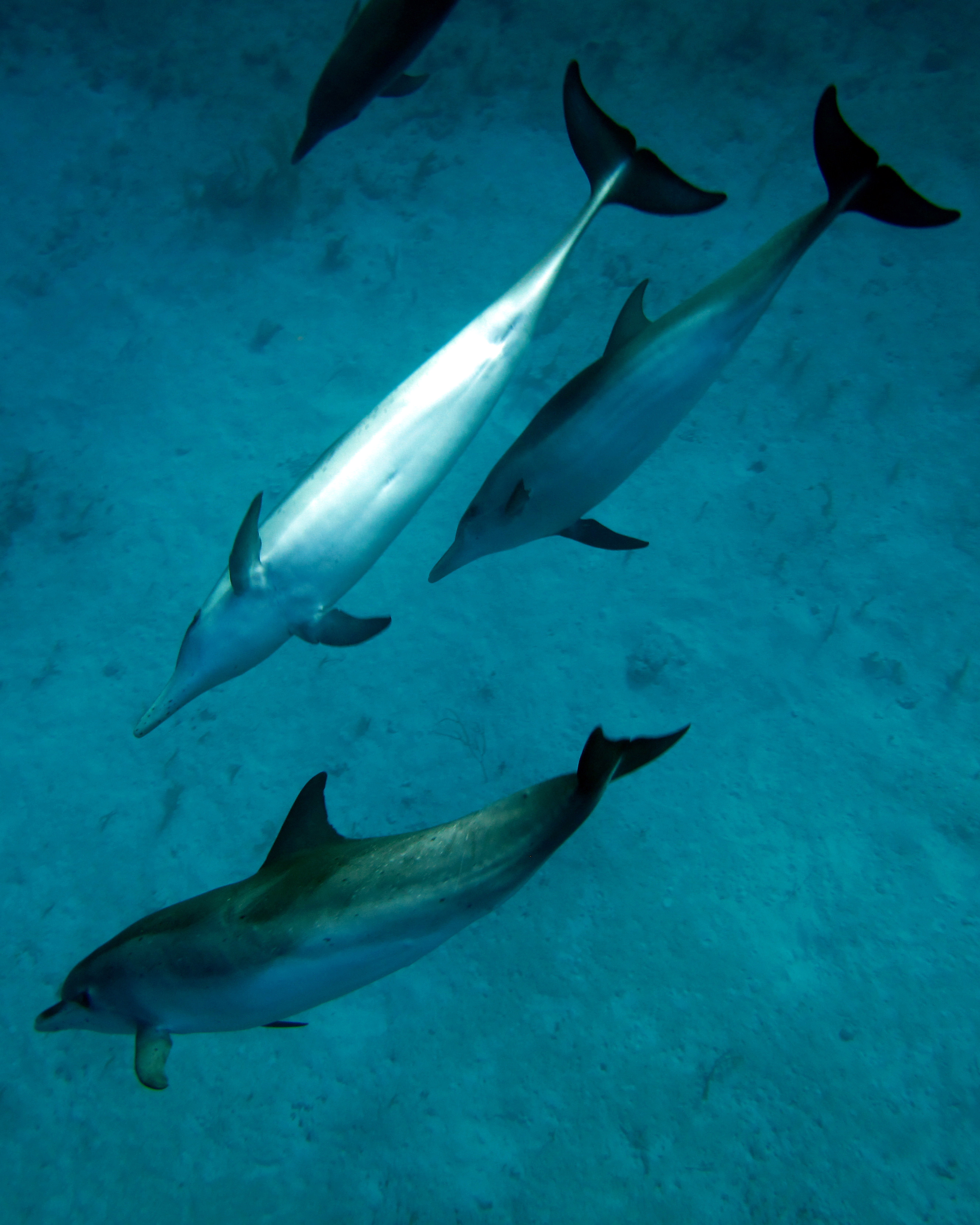 Photograph of Atlantic Spotted Dolphins off of Long Cay, near South Caicos in the Turks and Caicos islands.